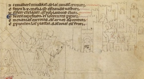 Fol. 231 recto from the manuscript of the Canso de la Crosada. Louis, prince of France, attacks Marmande (1219)